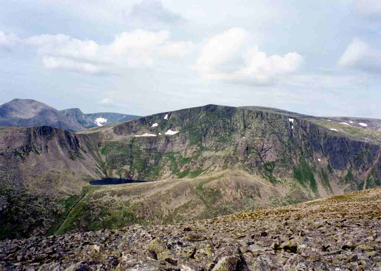 Personal photograph taken by Mick Knapton